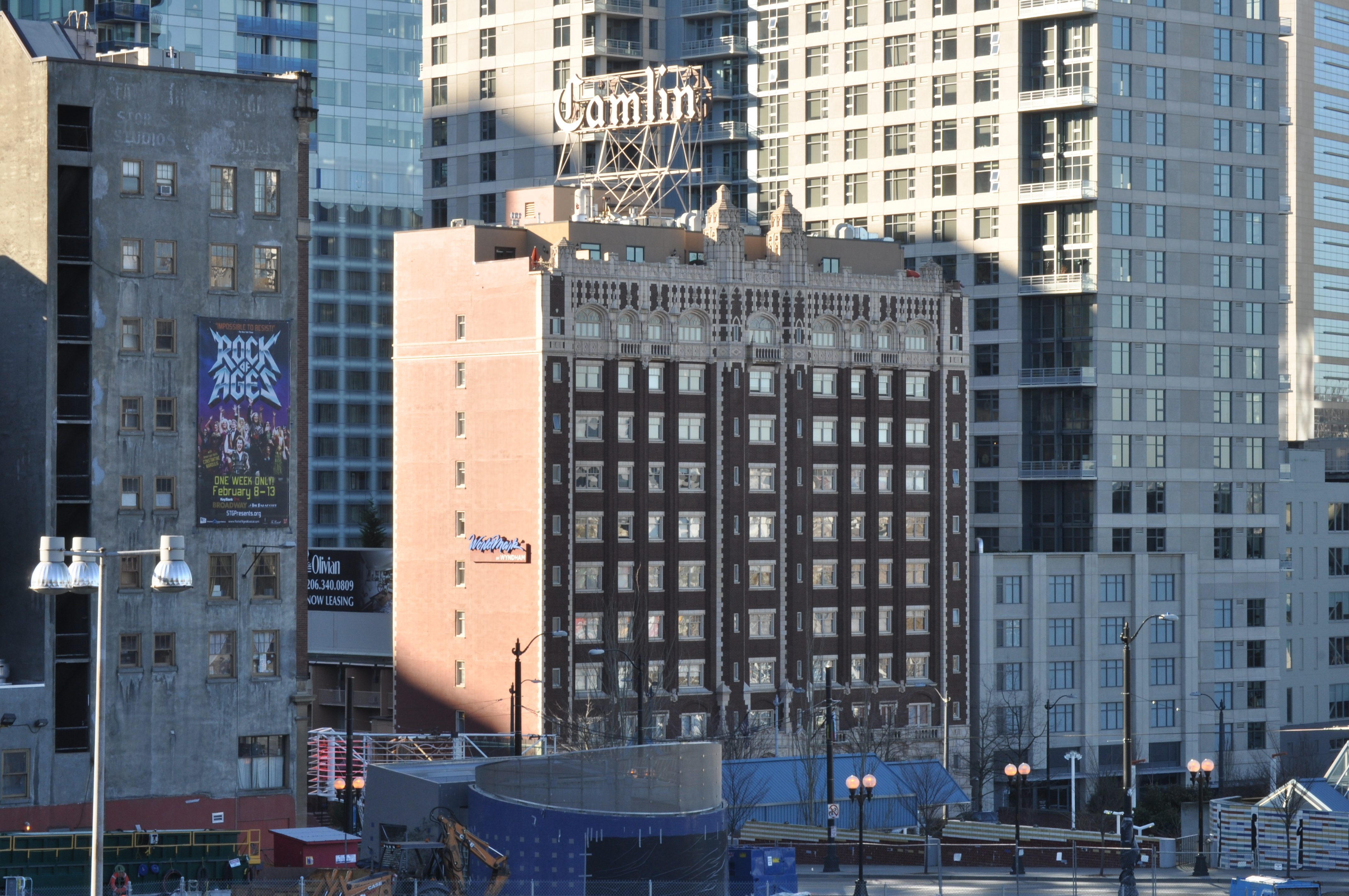 Camlin Hotel, Seattle, Washington. Added to National Register of Historic Places 1999 - Building - #99000405